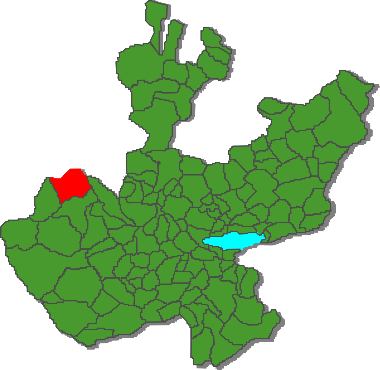 Locator map of San Sebastián del Oeste Municipality — San Sebastián del Oeste is a municipality and town in western Jalisco state, in west-central México. It was founded as a mining settlement in 1605, within the Spanish colonial Viceroyalty of New Spain.